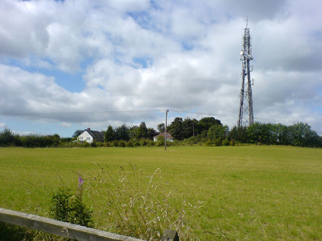 Communication mast A comms mast next to a couple of residential buildings.